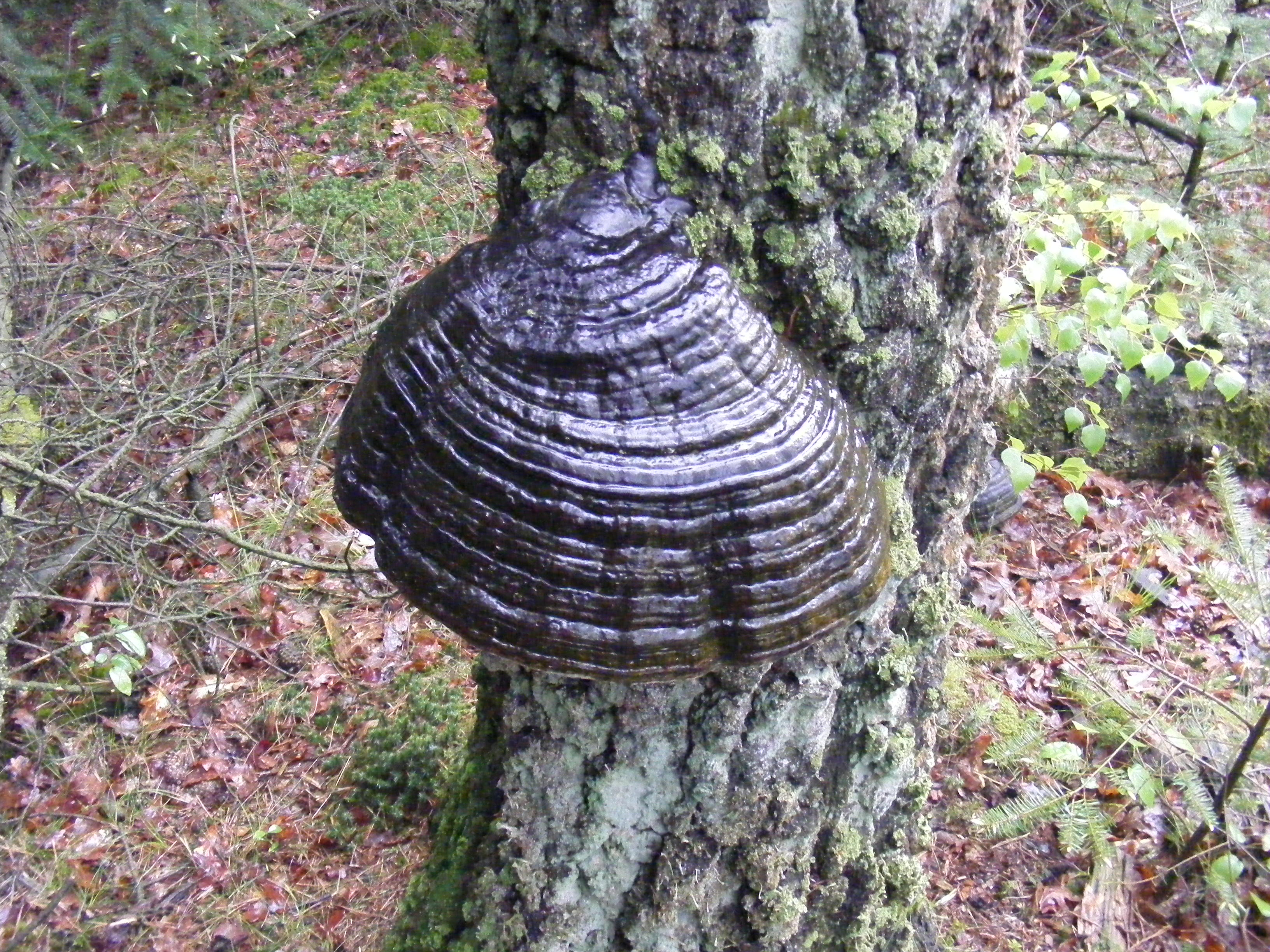 This is a photo or sound file made in Hoge Veluwe National Park in the Netherlands, with the main subject of the file in the category: flora